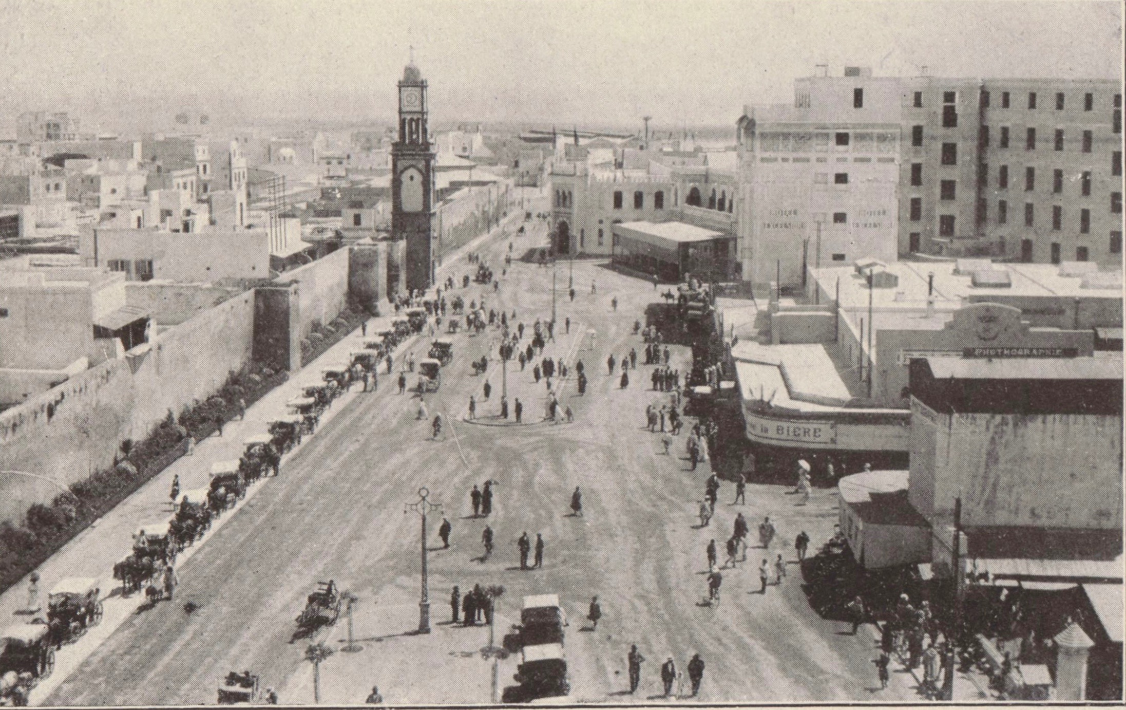 Place de France (now United Nations Square) in Casablanca in 1917, image published in the monthly illustrated magazine France-Maroc, dated August 15, 1917